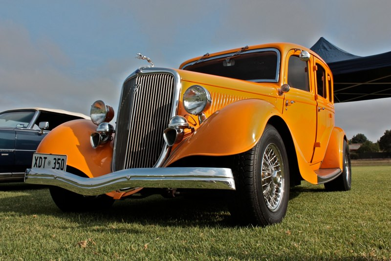 Orange 1934 Ford Deluxe Fordor from the USA. Now living in South Australia